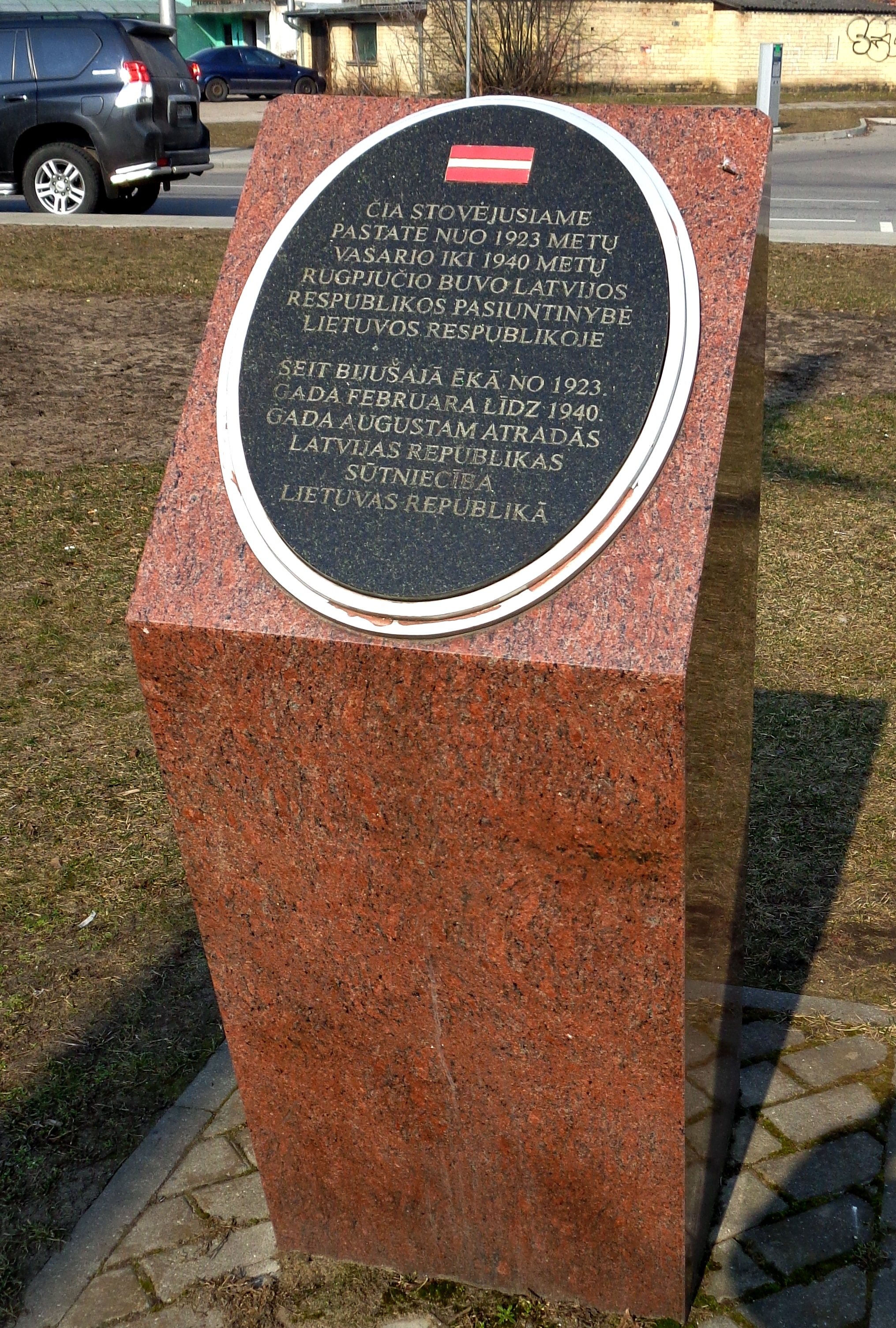 Memorial stone to the past building of the Embassy of Latvia to Lithuania in Kaunas